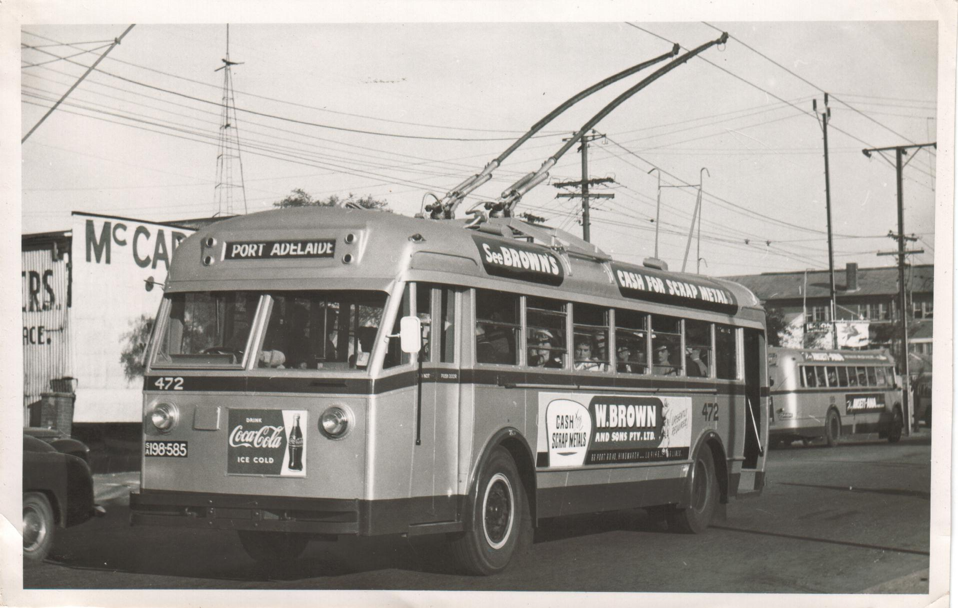 A front three-quarter view of trolleybus number 472 in Adelaide, South Australia. No. 472 was a Leyland trolleybus.